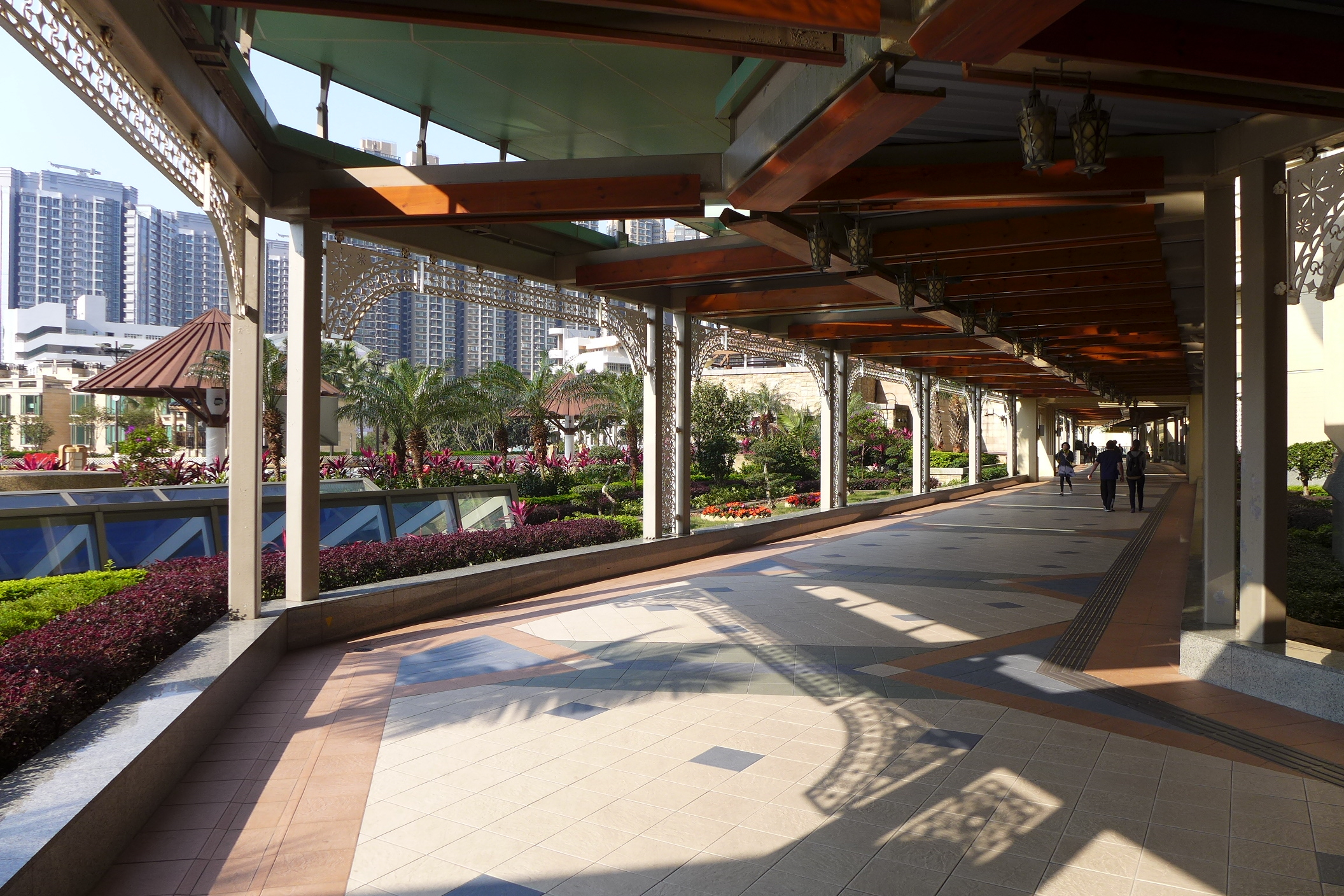 Caribbean Square 24 Hours Coverway access